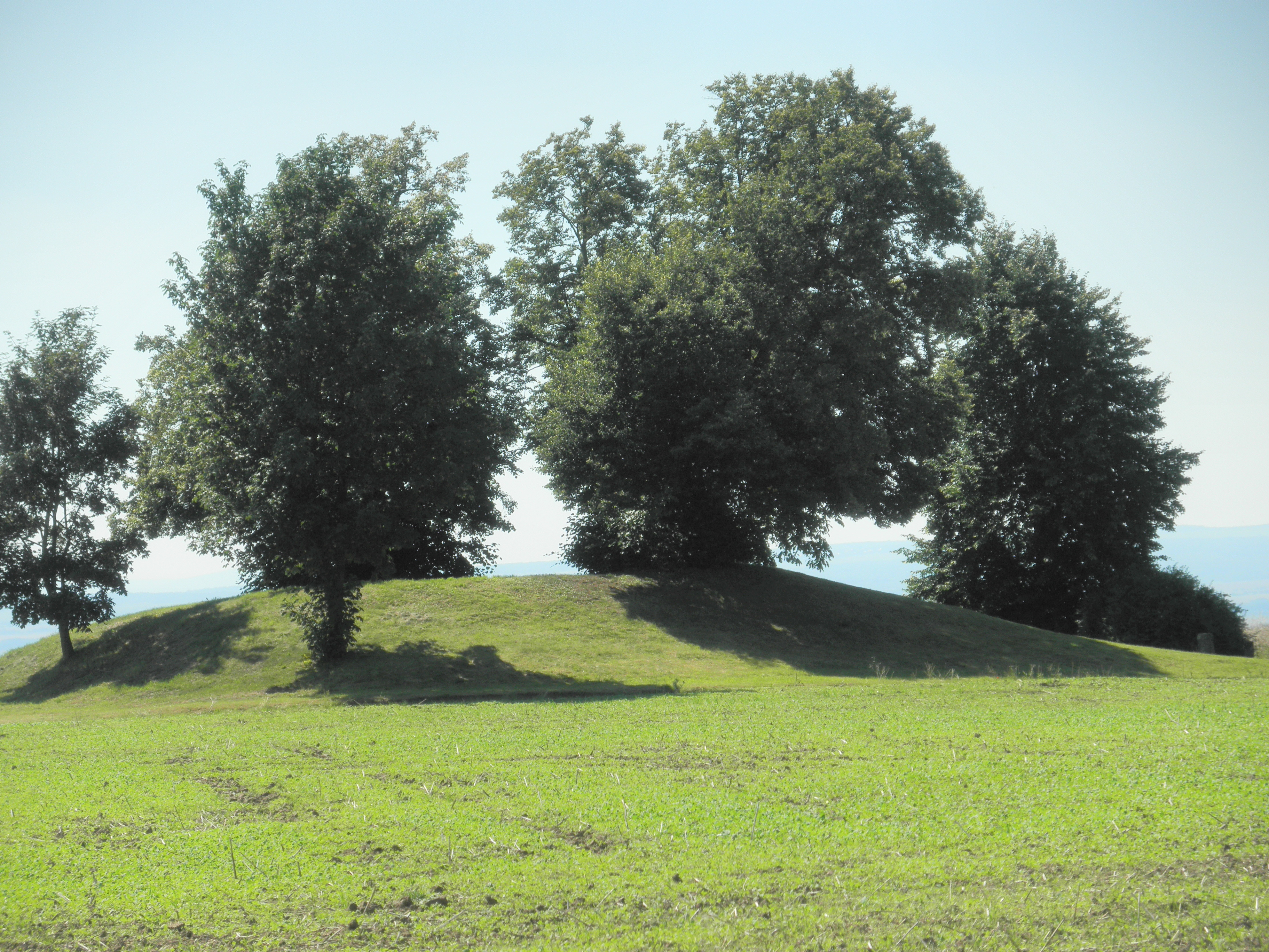 Burial Tumulus in Issersheilingen in Thuringia